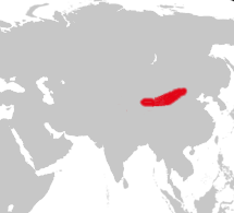 Areal of Cervus elaphus macneilli